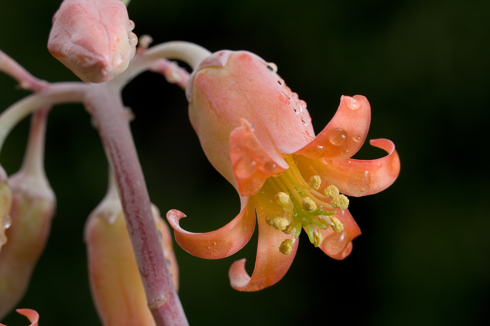 Pig's Ear (Cotyledon orbiculata) Camera data Camera Canon EOS 400D Lens Canon EF 70-200mm f4L w/ 12mm +25mm extension tube Flash Shoot through umbrella right Focal length 78 mm Aperture f/10 Exposure time 1/200 s Sensivity ISO 200